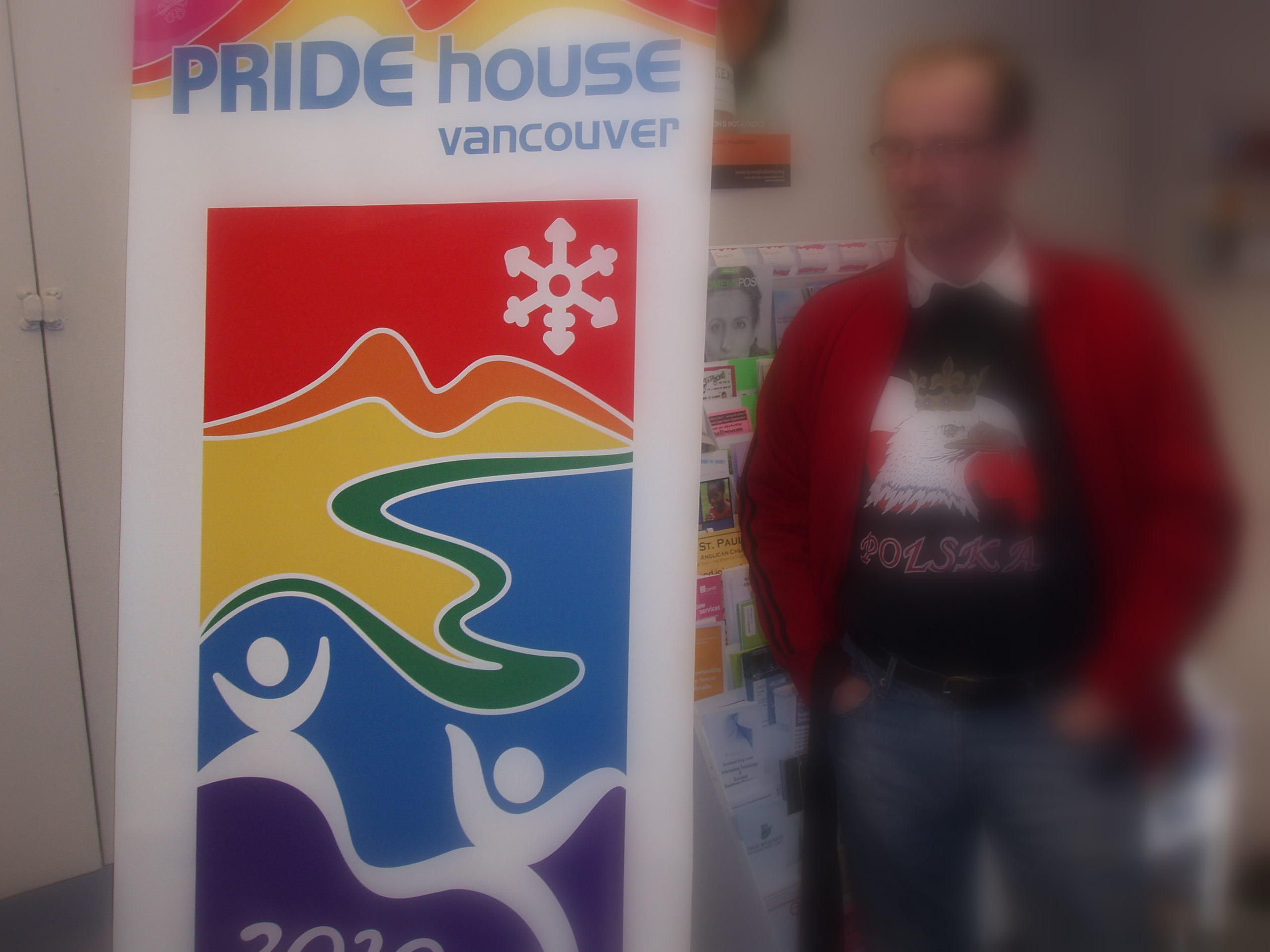 picture taken at Vancouver's Pride Pavilion on Bute Str., Vancouver